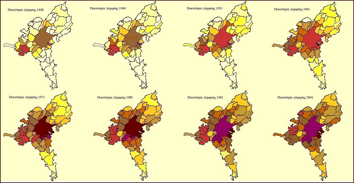 Population density in Athens